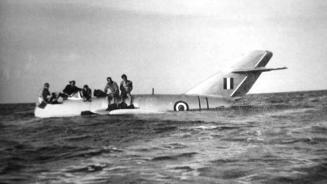 Egyptian MiG-15 in Lake Bardawil, recovered by Israeli ship